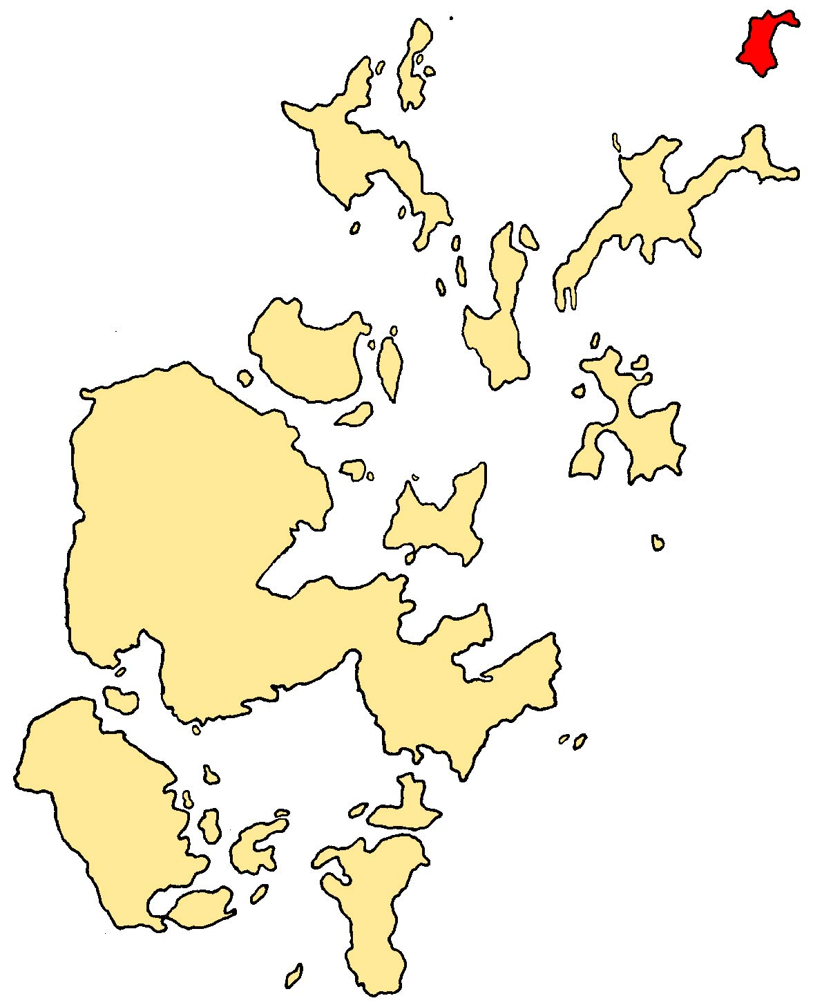 North Ronaldsay